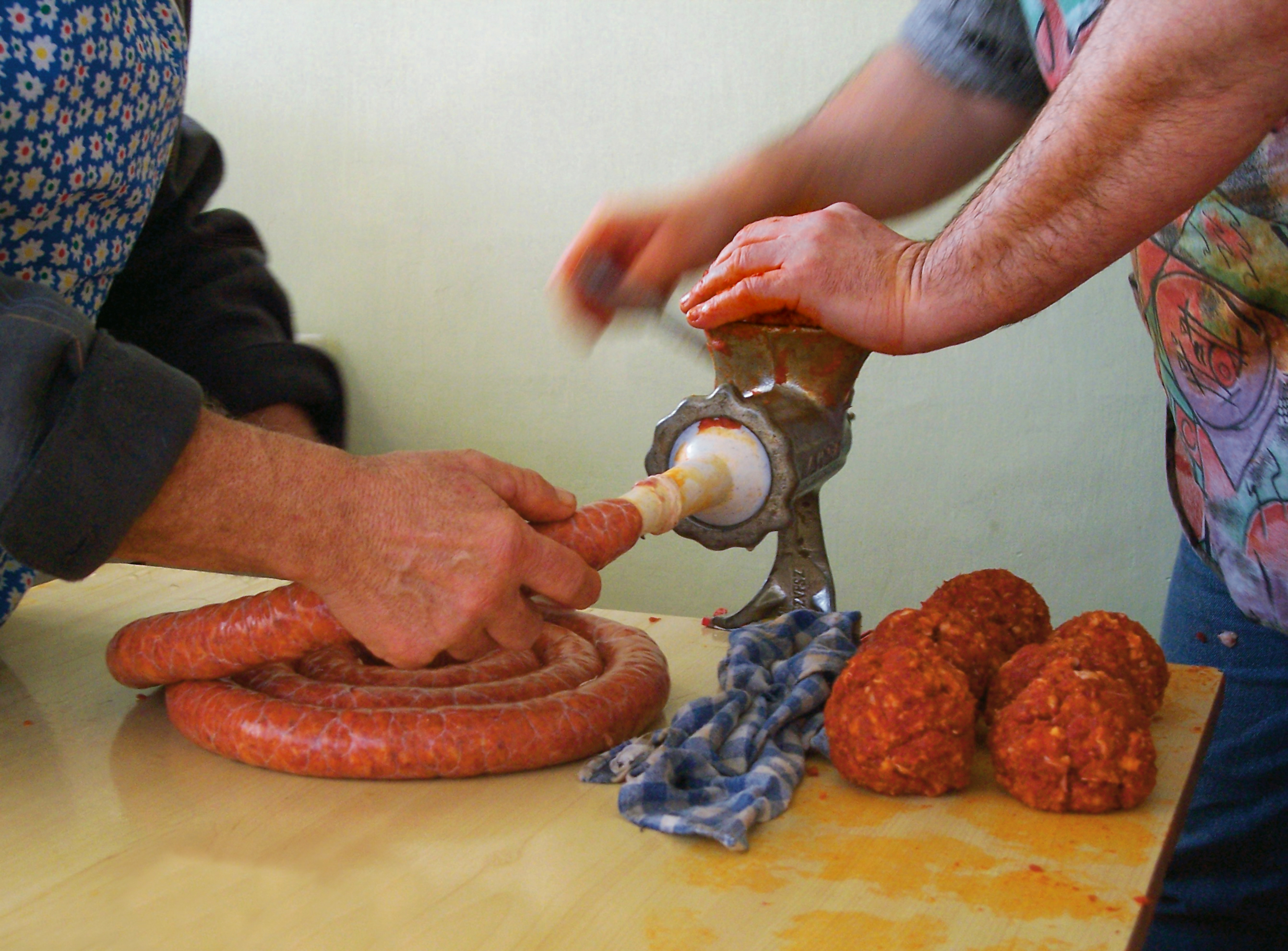 Traditional sausage making in Hungary with animal intestine